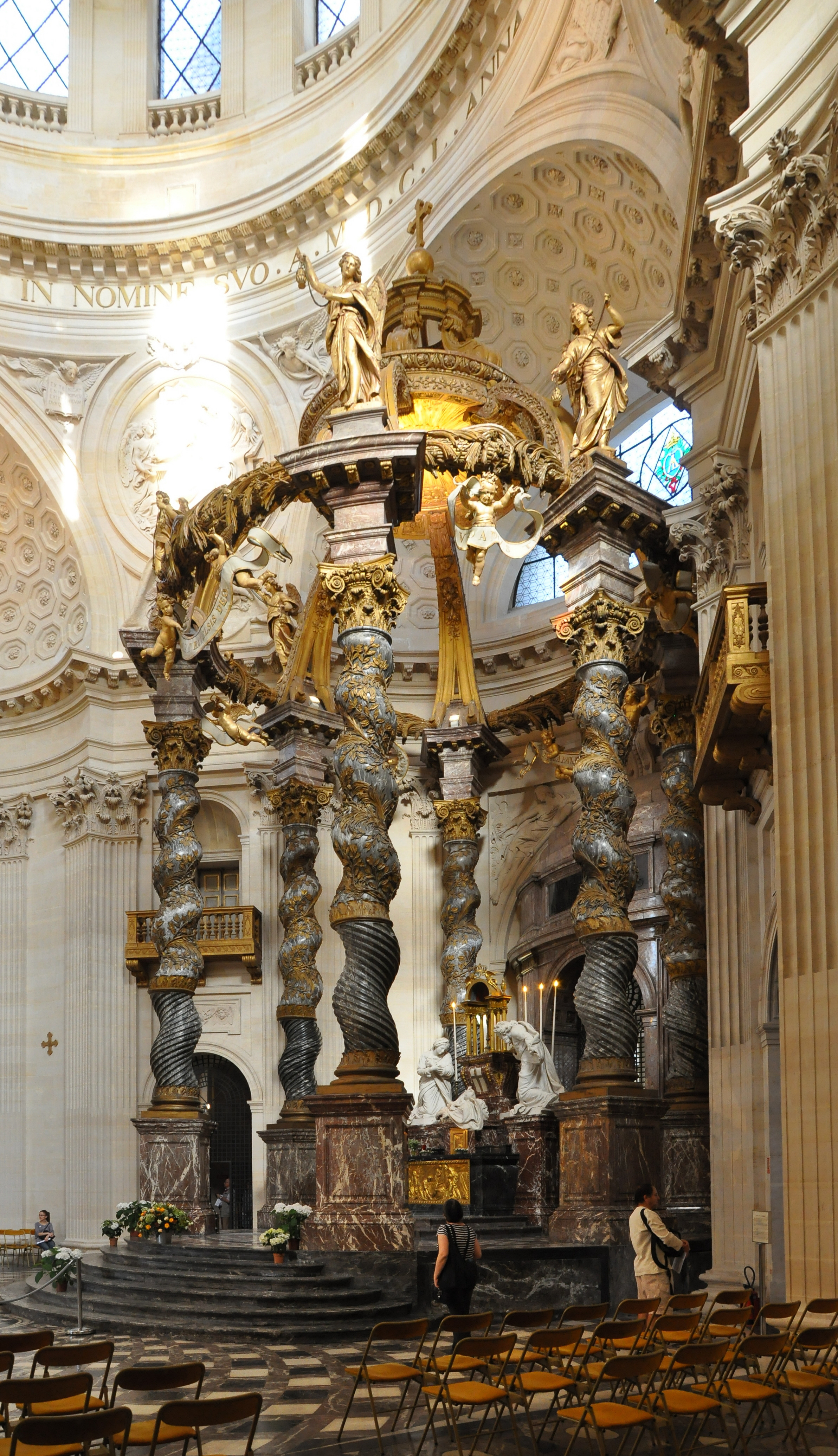 Baldachin by Gabriel Le Duc and altar by Michel Anguier in the church of Val-de-Grâce in the 5th arrondissement of Paris in France.